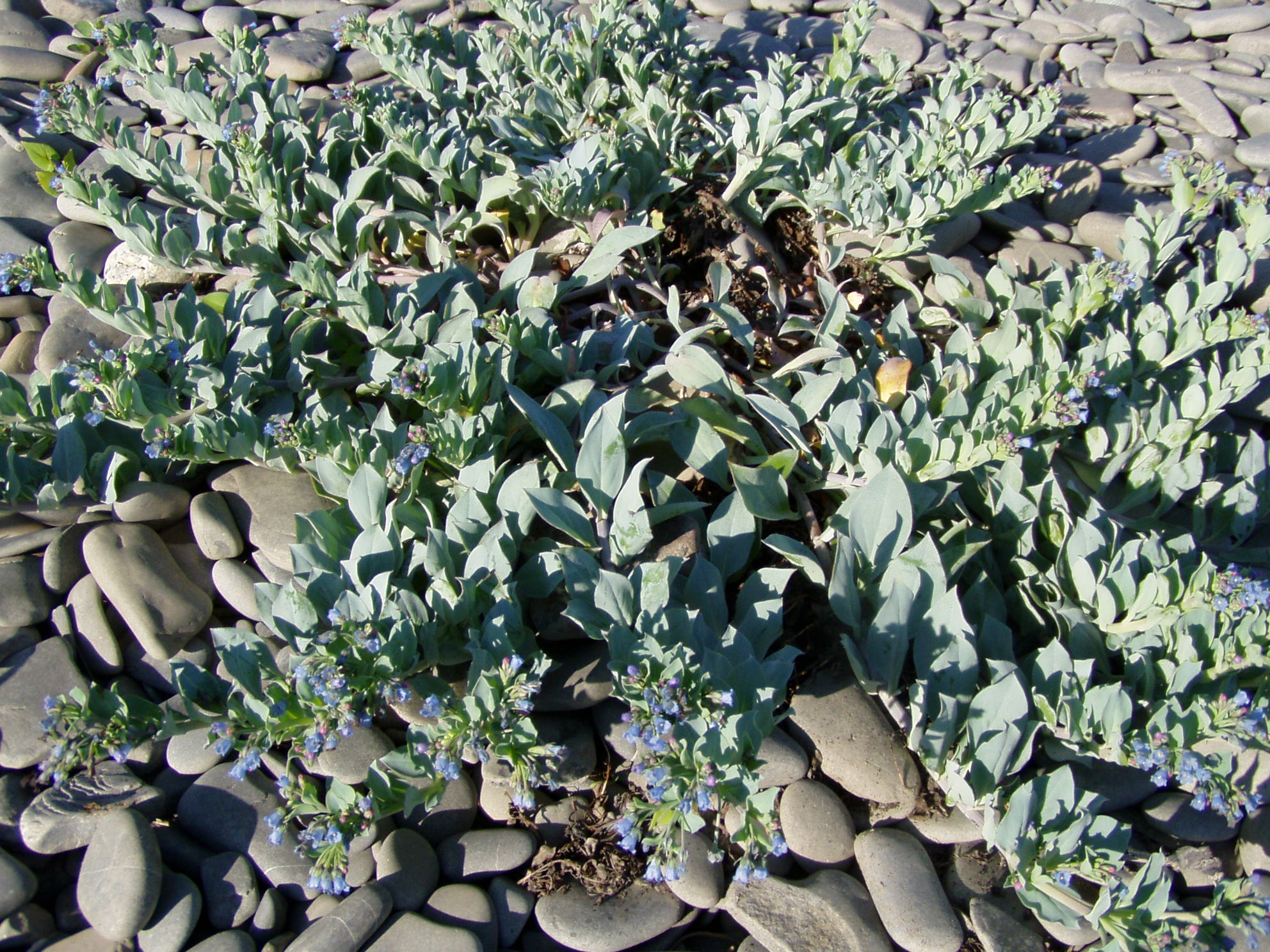 Oysterleaf (Mertensia maritima). Photo taken in July 2005 by myself, Danielle Langlois, on a shingle beach at Pointe-à-la-Frégate, Québec, Canada.